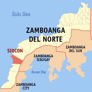 Map of the Zamboanga del Norte showing the location of Siocon